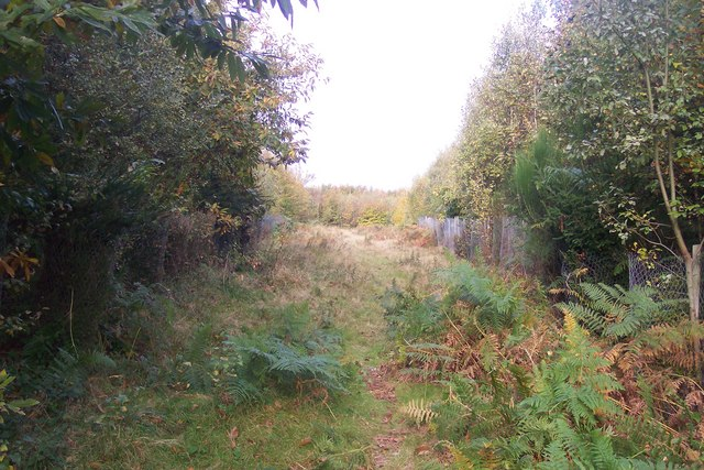 Yew Tree Walk, Kings Wood (2) Looking West This 180m long walk is in the large wood near Challock, it is part of a artwork by Lukasz Skapski. Called Via Lucem Continens, 2000 or Time Walk. The avenue of 200 yew trees was planted by local people. The artwork is a device for viewing the setting sun: it framed the sunset on midsummer’s day 2000 and will act as a battery of energy over the next millennium - during which time the yew trees will slowly mature.